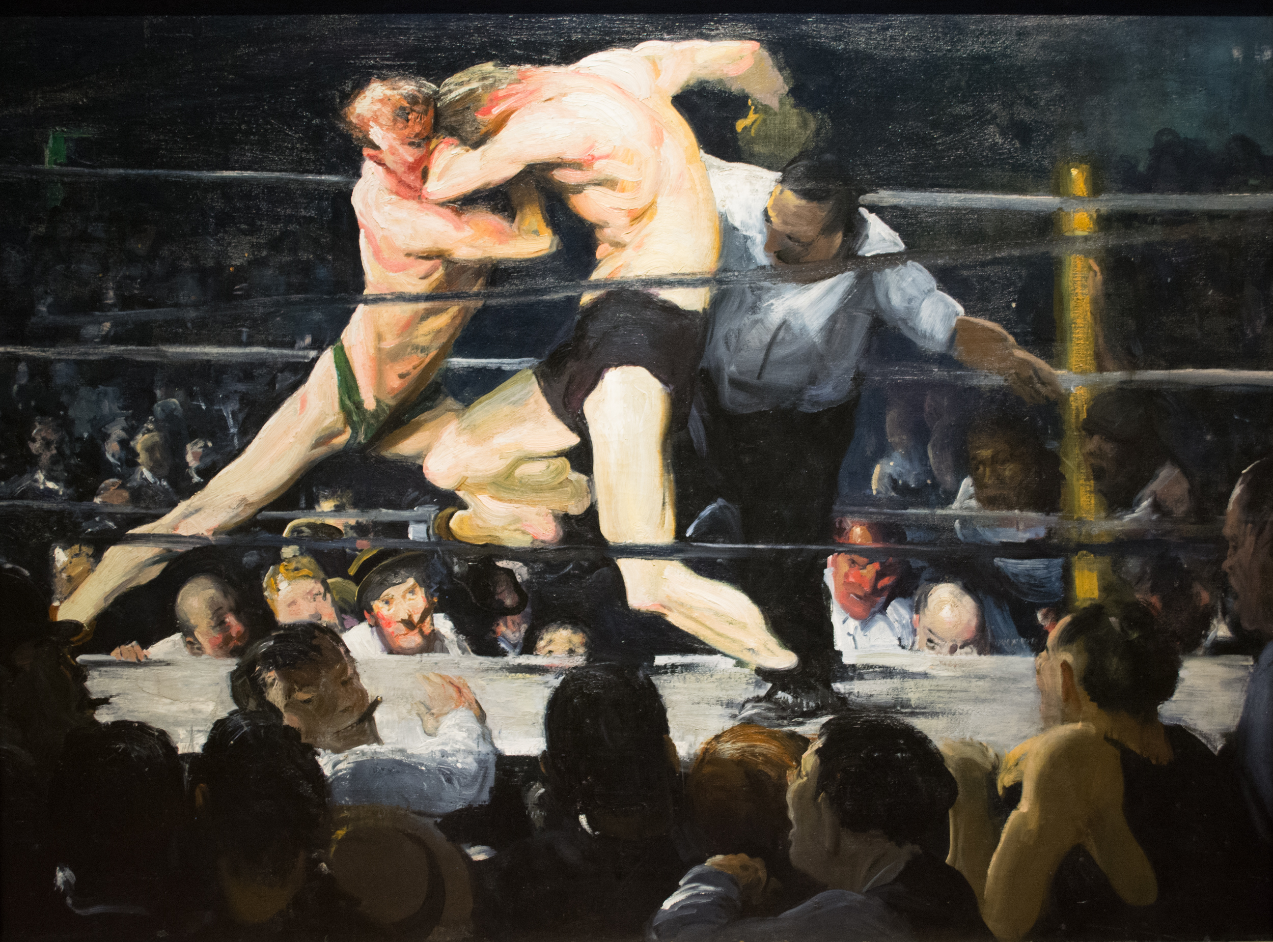 "Stag at Sharkey's" by George Bellows, painted in 1909. Oil on canvas. Cleveland Museum of Art.